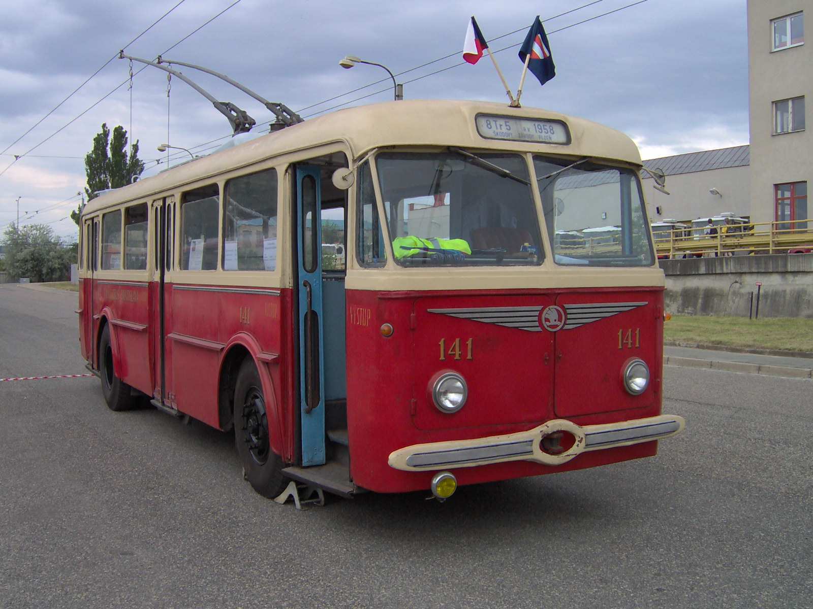 Historical Škoda 8Tr trolleybus in Brno (the car come from Bratislava, now possession of Technical museum Brno)